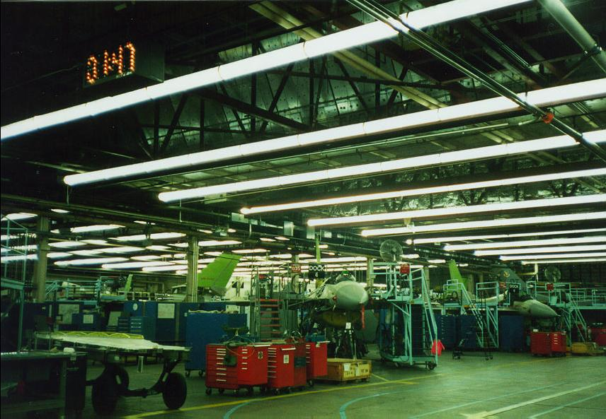 Photo of sulfur lamps and light pipes at Hill Air Force Base in Ogden, Utah.